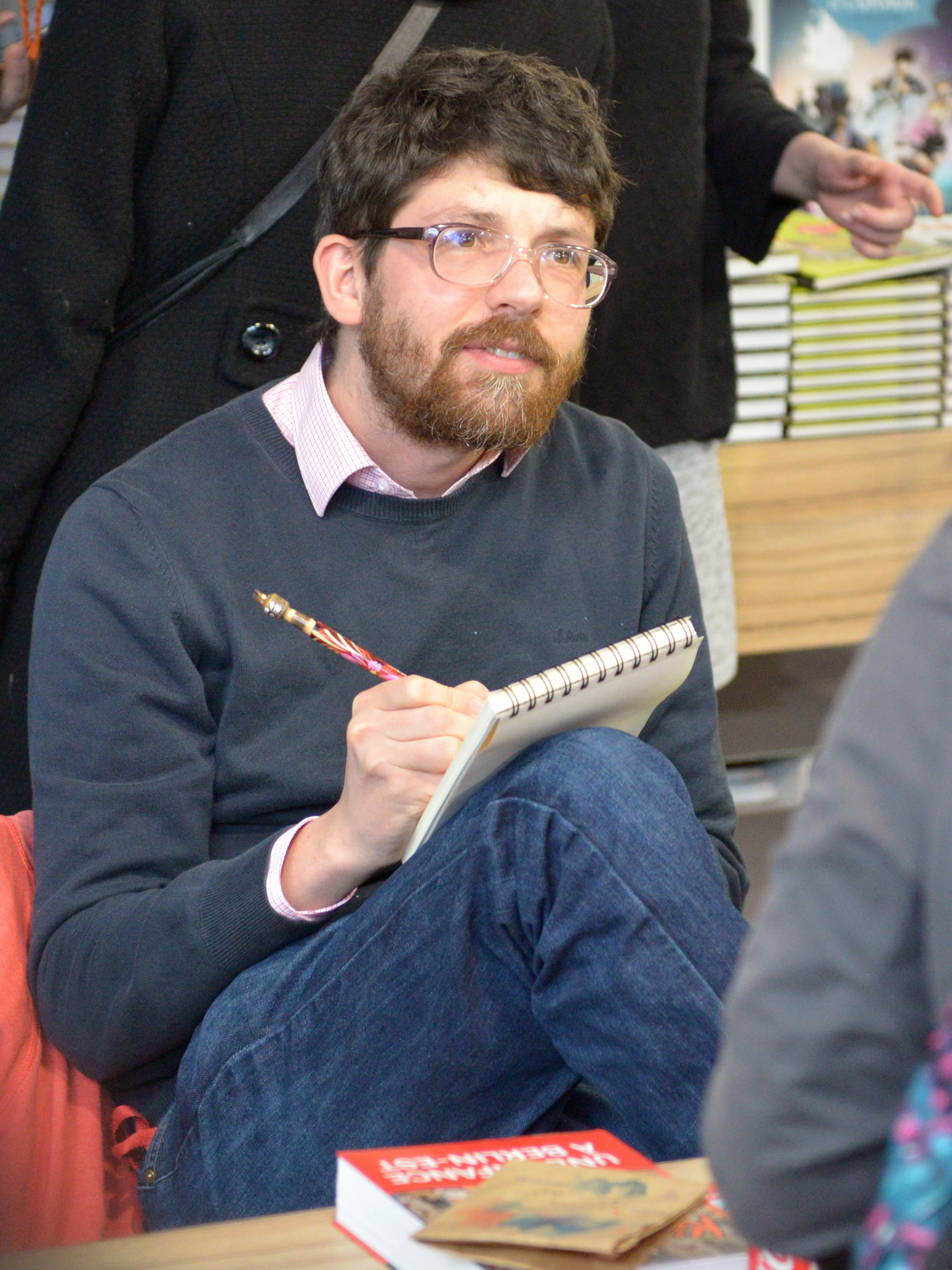 German comics artist Mawil at Angoulême International Comics Festival, january, 30th, 2015.